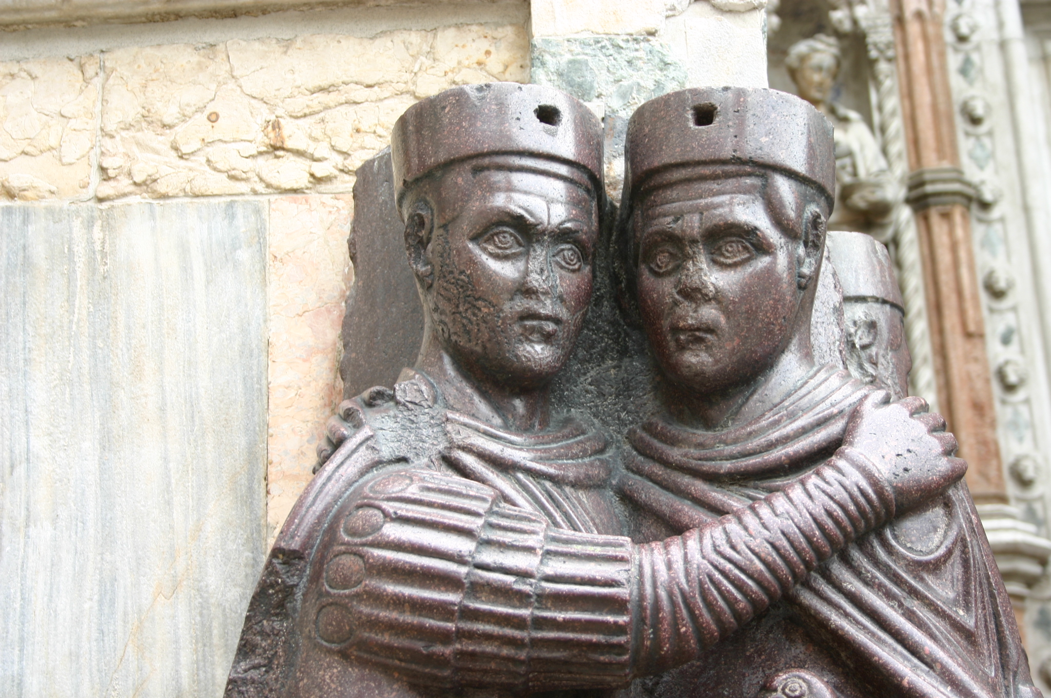 The tetrarchs (from the Greek words for "Four rules") were the four co-rulers that governed the Roman Empire as long as Diocletian's reform lasted. Here they were portraied embracing, in sign of harmony, in a porphyry sculpture dating from the 4th century, produced in Asia Minor, today on a corner of Saint Mark's in Venice, next to the "Porta della Carta". Picture by Giovanni Dall'Orto, August 8, 2007.